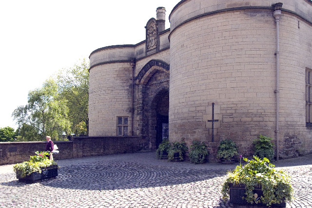 Nottingham Castle's Gatehouse.